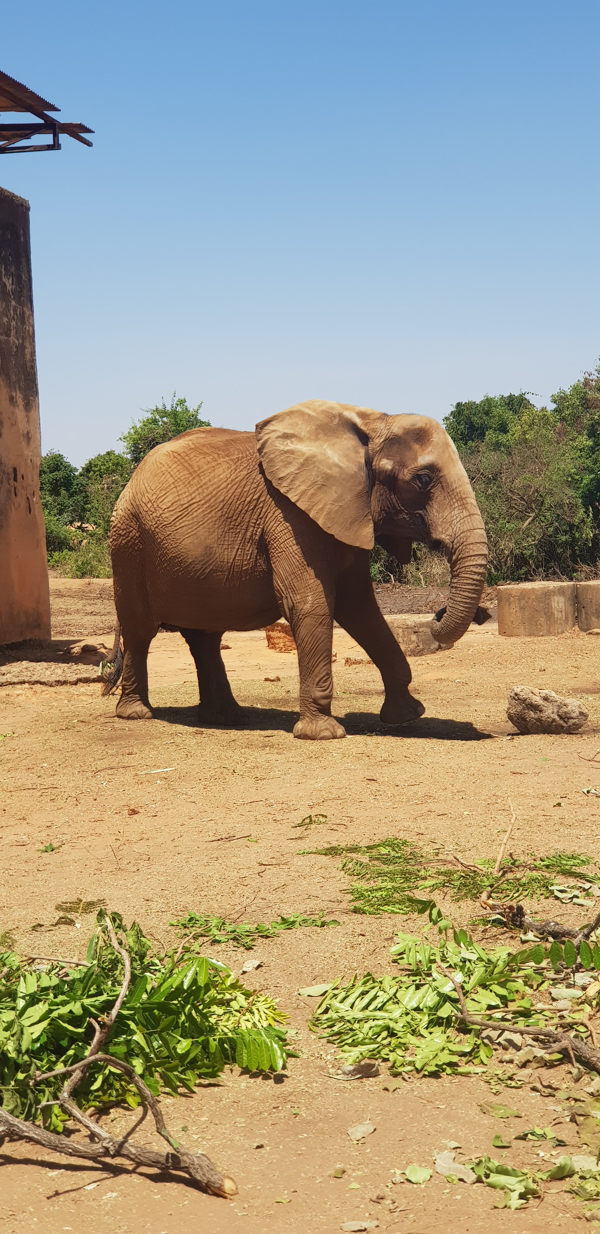 A solitary Elephant at the Jos Wildlife Park